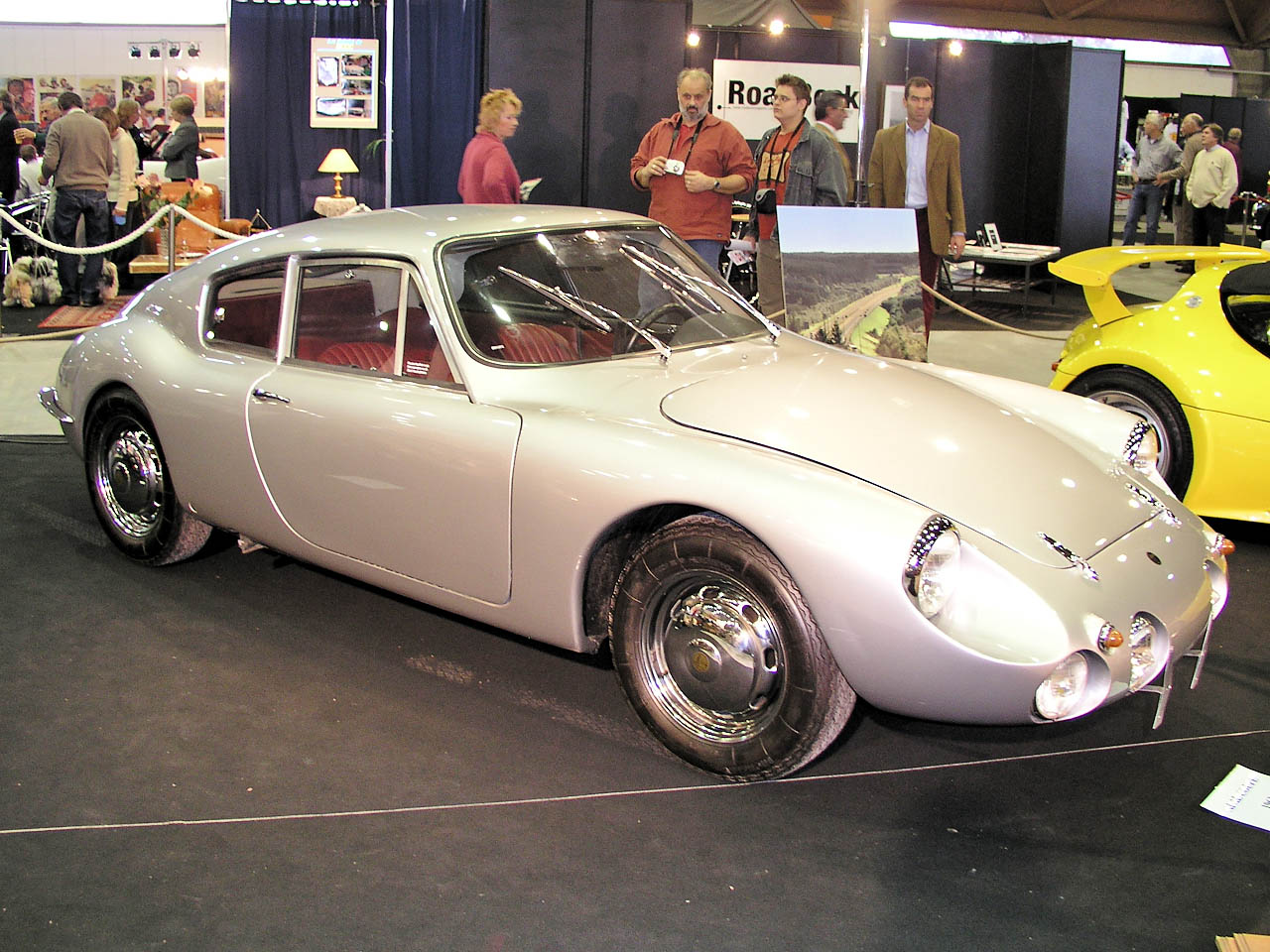 Coupé inspired by a 1959 Porsche Carrera Abarth and based on a VW Beetle chassis, made in Belgium by Application Polyester Armé de Liége; right front-side view